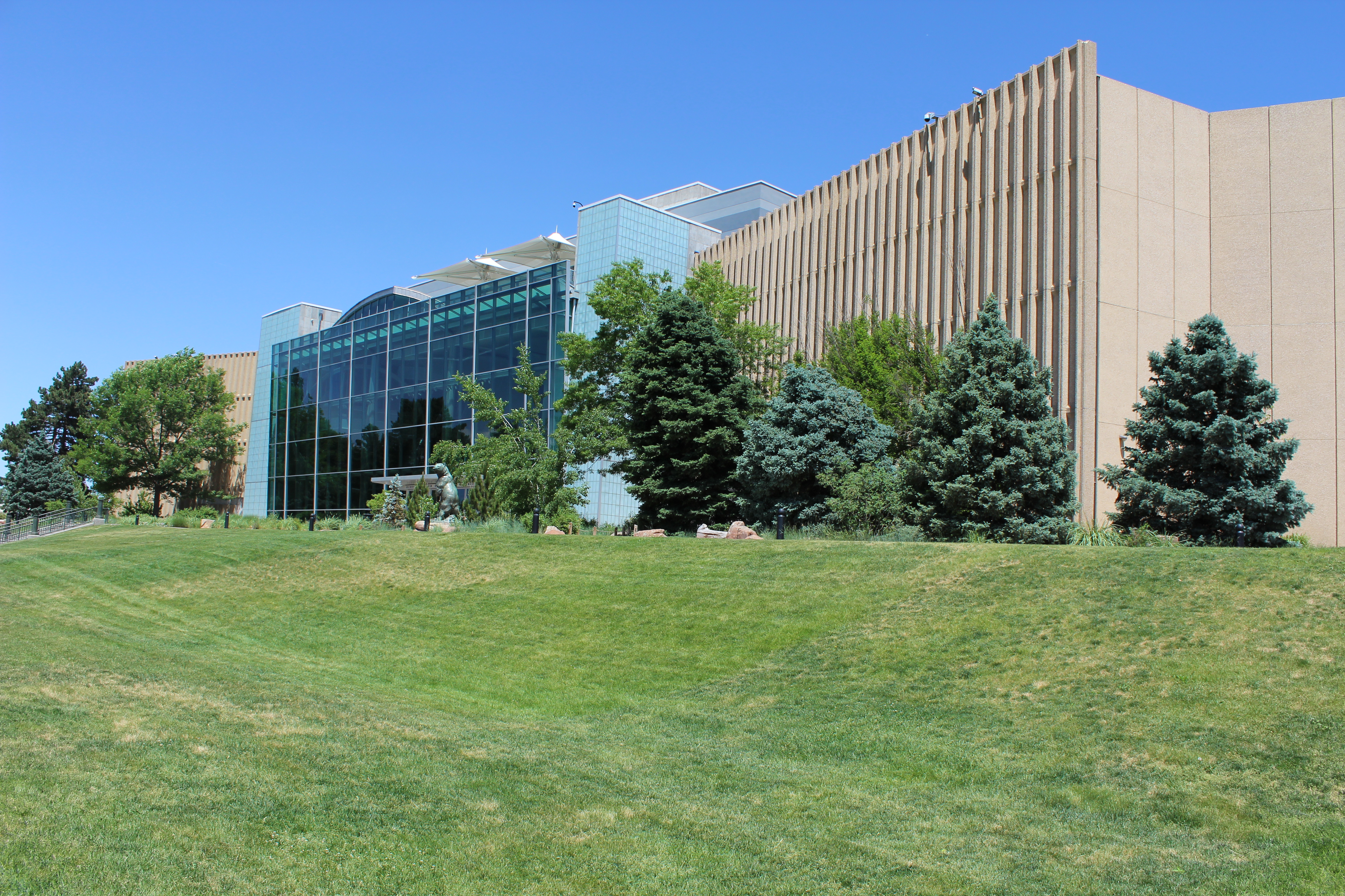 Denver Museum of Nature and Science. View from west.